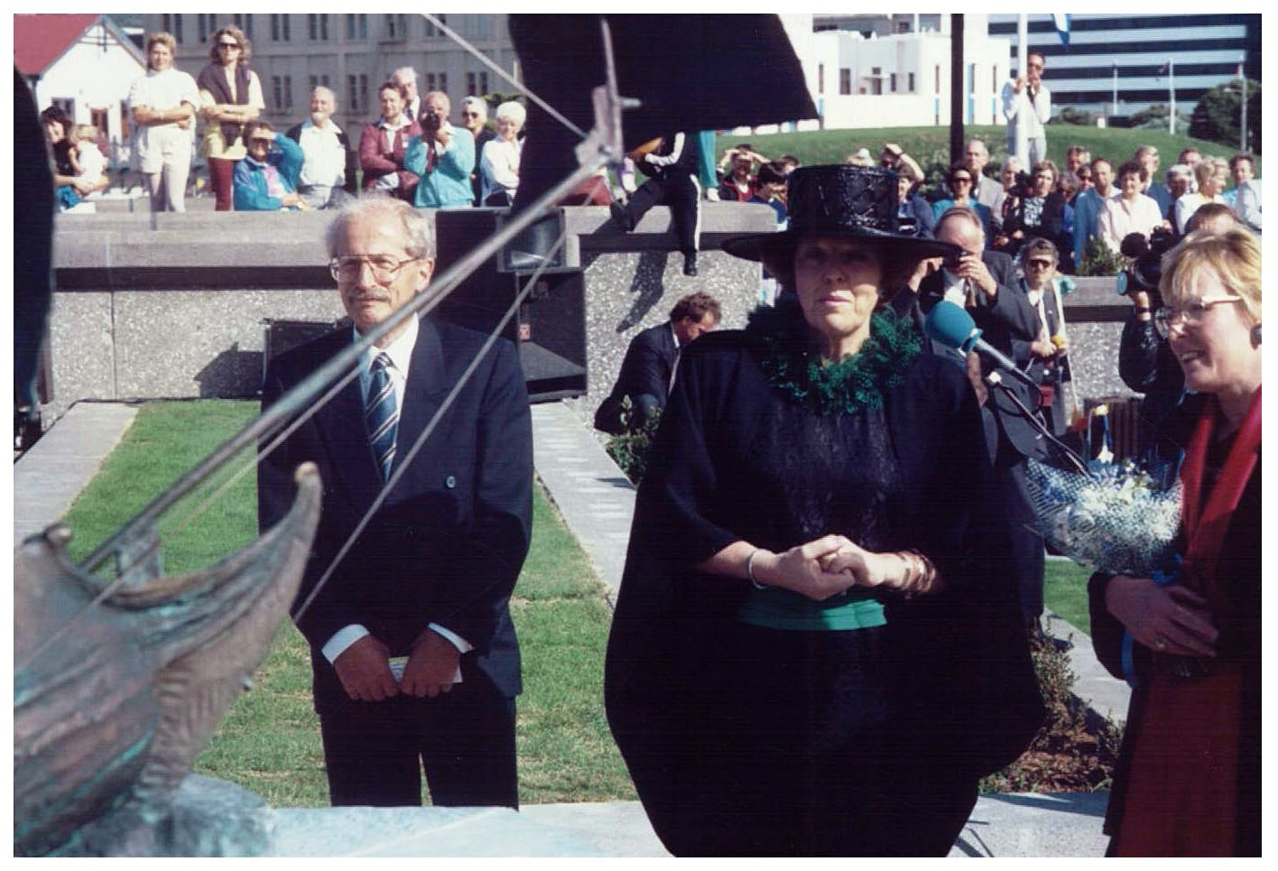 On 18 March 1992, Queen Beatrix of the Netherlands unveiled sculptures of the 'Heemskerck' and 'Zeehaen' in Wellington’s Frank Kitts Park. These were the ships of Dutch explorer Abel Tasman and the unveiling marked the 350th anniversary of his visit to New Zealand. Abel Tasman was one of several European explorers in search of a legendary “great southern land”. Although Portuguese and Spanish ships were in the general area of New Zealand the century before, Abel Tasman has been widely recognised as the first European to view this country. While the great southern land sought by the navigators proved mythical, Abel Tasman found much to wonder at during his long voyage, not least being the high mountains of the Southern Alps. He named the area now known as Golden Bay, "Murderers’ Bay" after a tragic clash between his crew and Maori. Shown here are Queen Beatrix at the Frank Kitts Park ceremony with sculptor Margriet Windhausenon (on her left) and Boyd Klap (president of the New Zealand Netherlands Foundation). Queen Beatrix gifted the sculptures to New Zealand in recognition of its relationship with the Netherlands. Subsequent vandalism saw the memorial being moved to the grounds of Parliament. Reference: R18379237 For more information For updates on our On This Day series and news from Archives New Zealand, follow us on Twitter Material supplied by Archives New Zealand